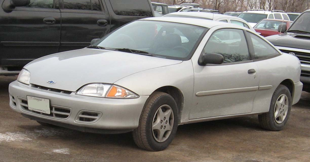 2000-2002 Chevrolet Cavalier photographed in USA.